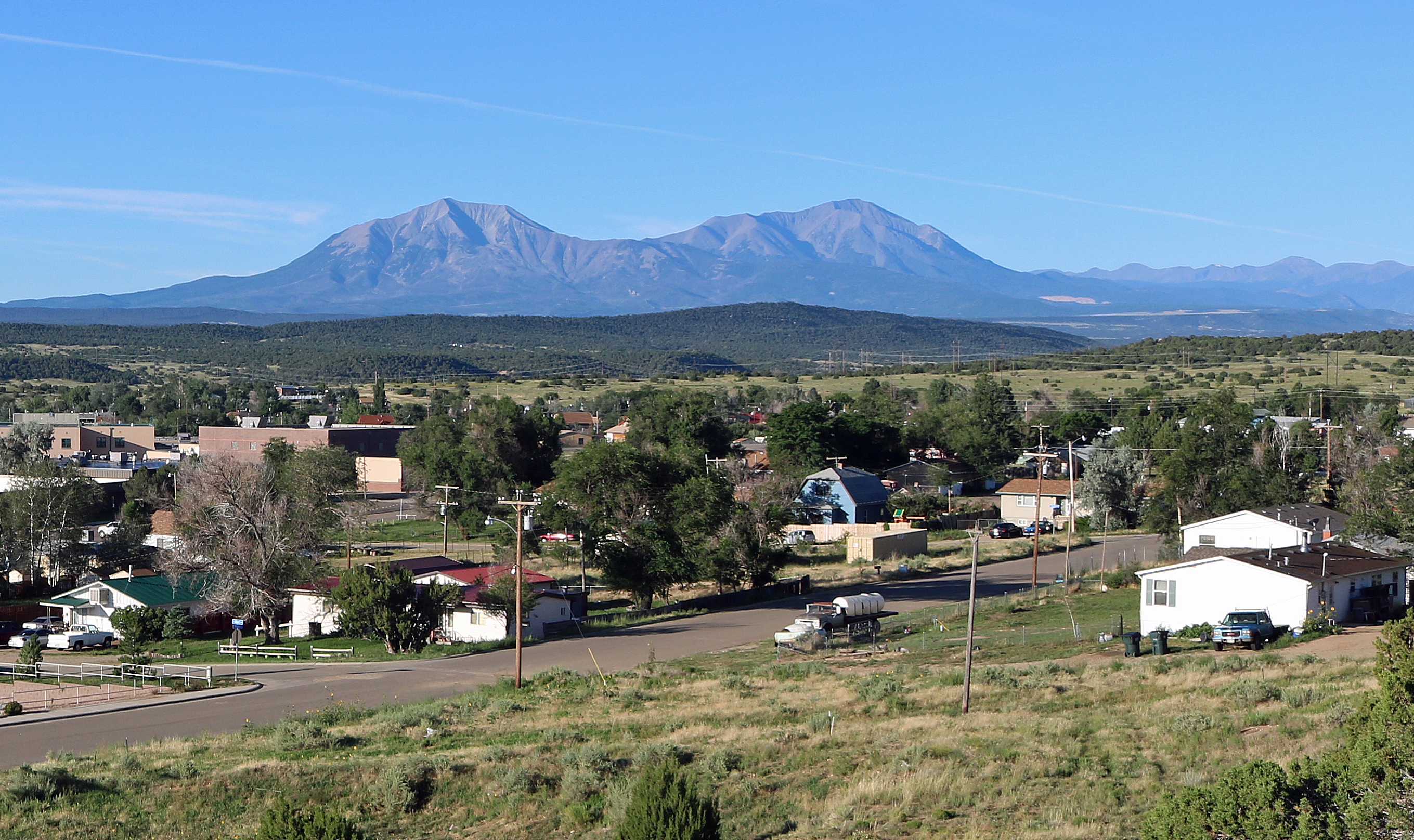 A view of Walsenburg, Colorado and the Spanish Peaks. The Culebra Range is visible on the right.